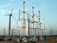 Authored by Wind Harvest Company URL: Opened to public domain